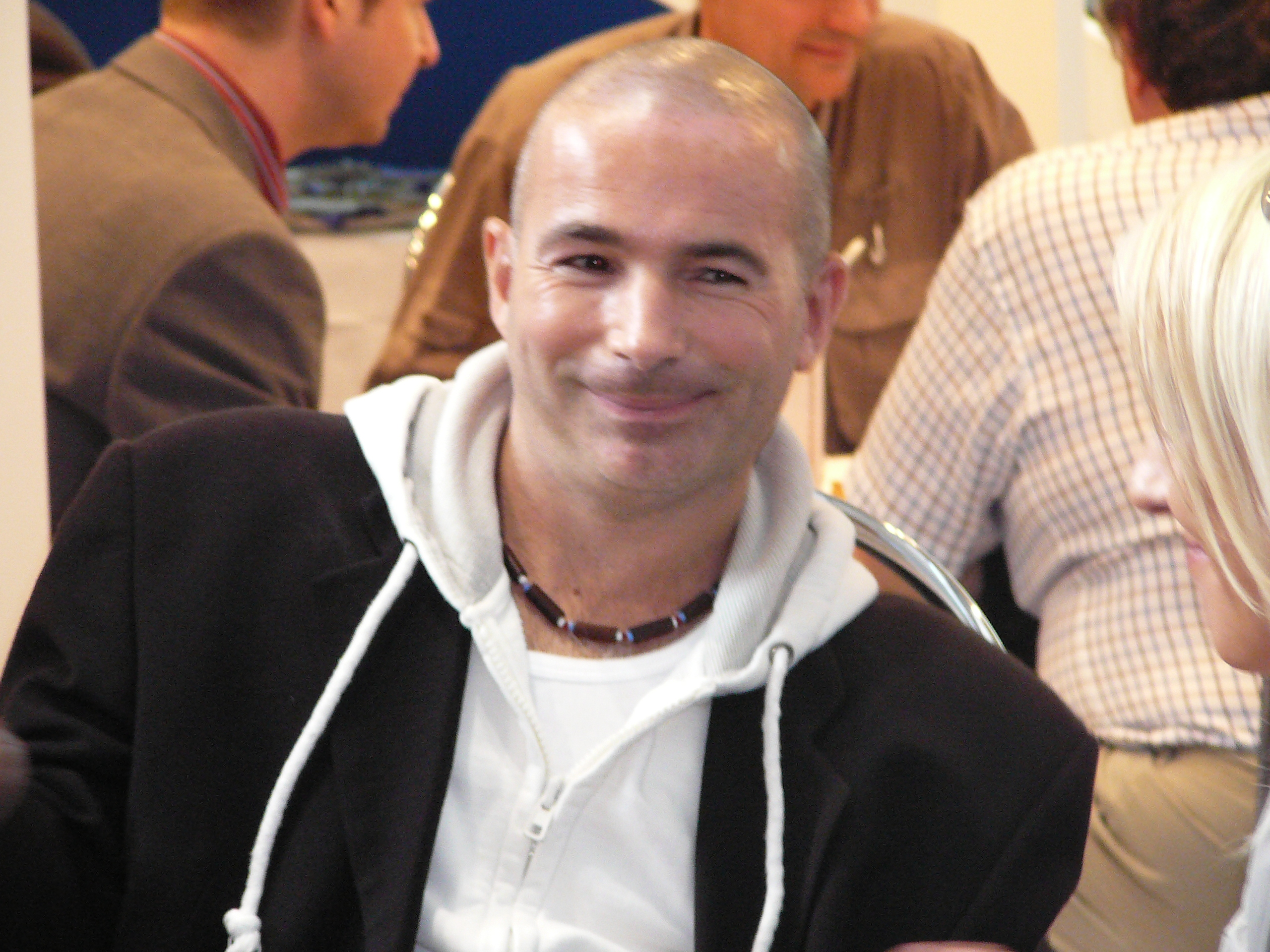 Rudolf Hrušínský on the presentation of film Kvaska in the pavilion A on the Brno Exhibition Grounds in the Building Fair.